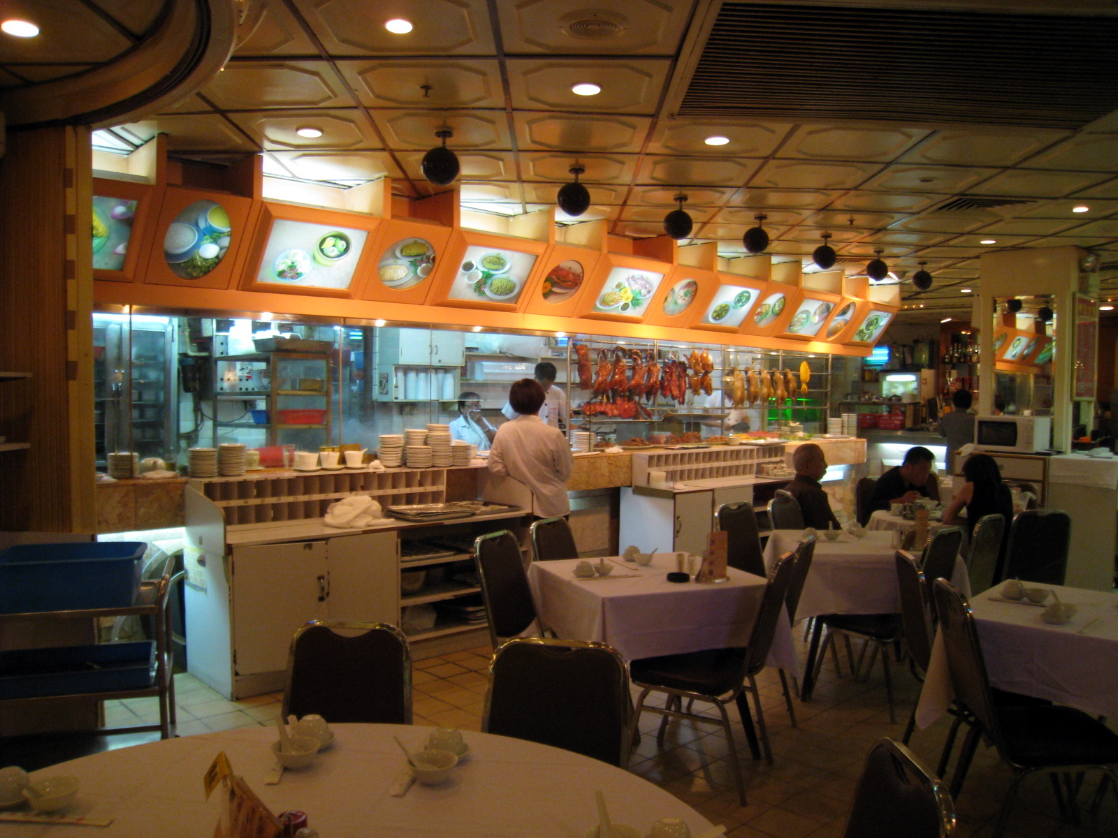 Hotel Lisboa Chinese Restaurant 葡京酒店